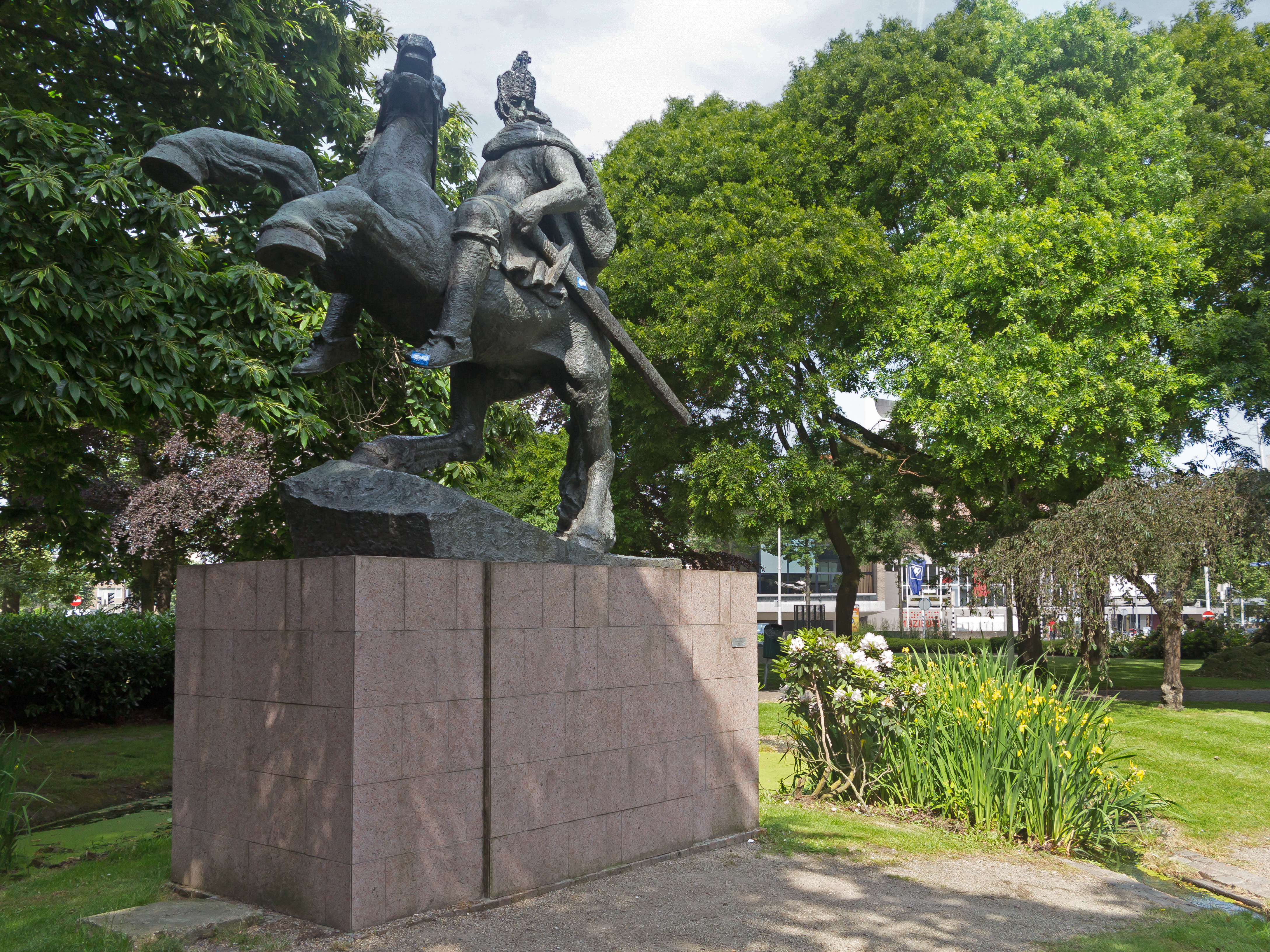 Nijmegen, Charlemagne statue on horse